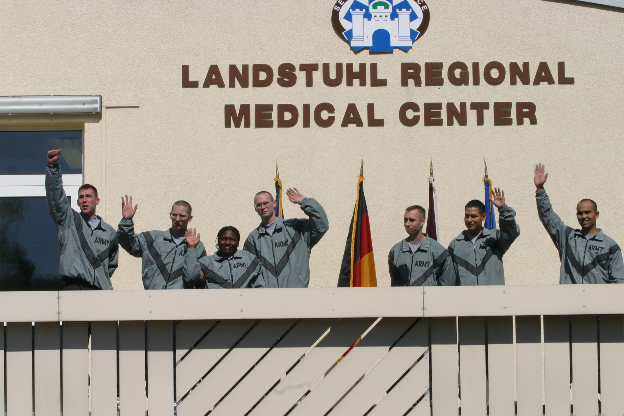 Seven Army former POWs greet the media from the balcony of their hospital ward at Landstuhl Regional Medical Center (LRMC) in Landstuhl, Germany, at noon, local time, on Friday, April 18, 2003